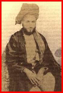 sultan majid bin said of zazibar, he ruled between 1856 - 1870